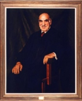 Anthony Joseph Celebrezze (1910-1998)